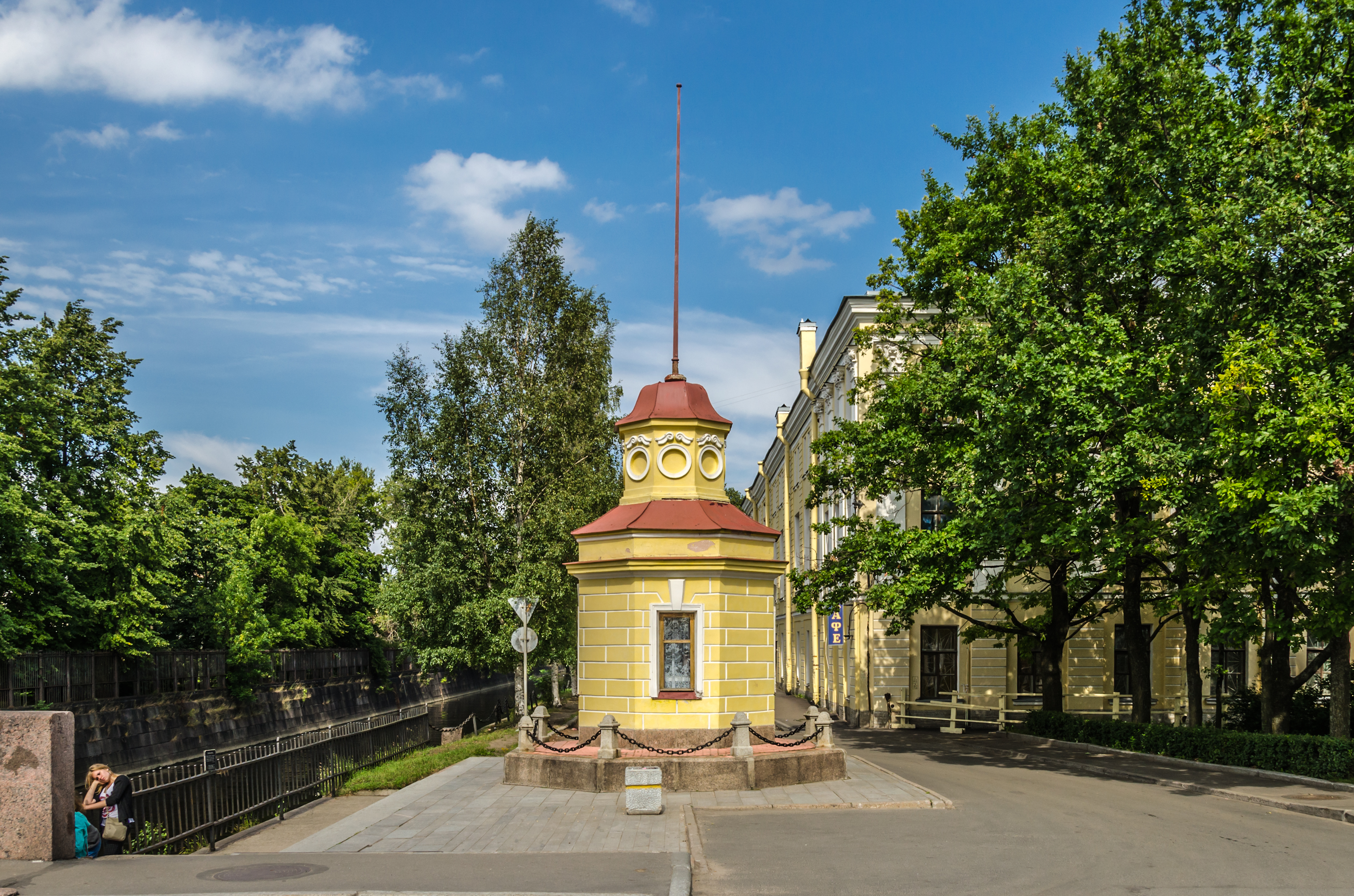 Tide gauge in Kronstadt